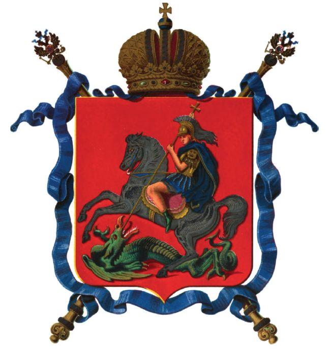 Coat of Arms of Moscow. Russian Empire.